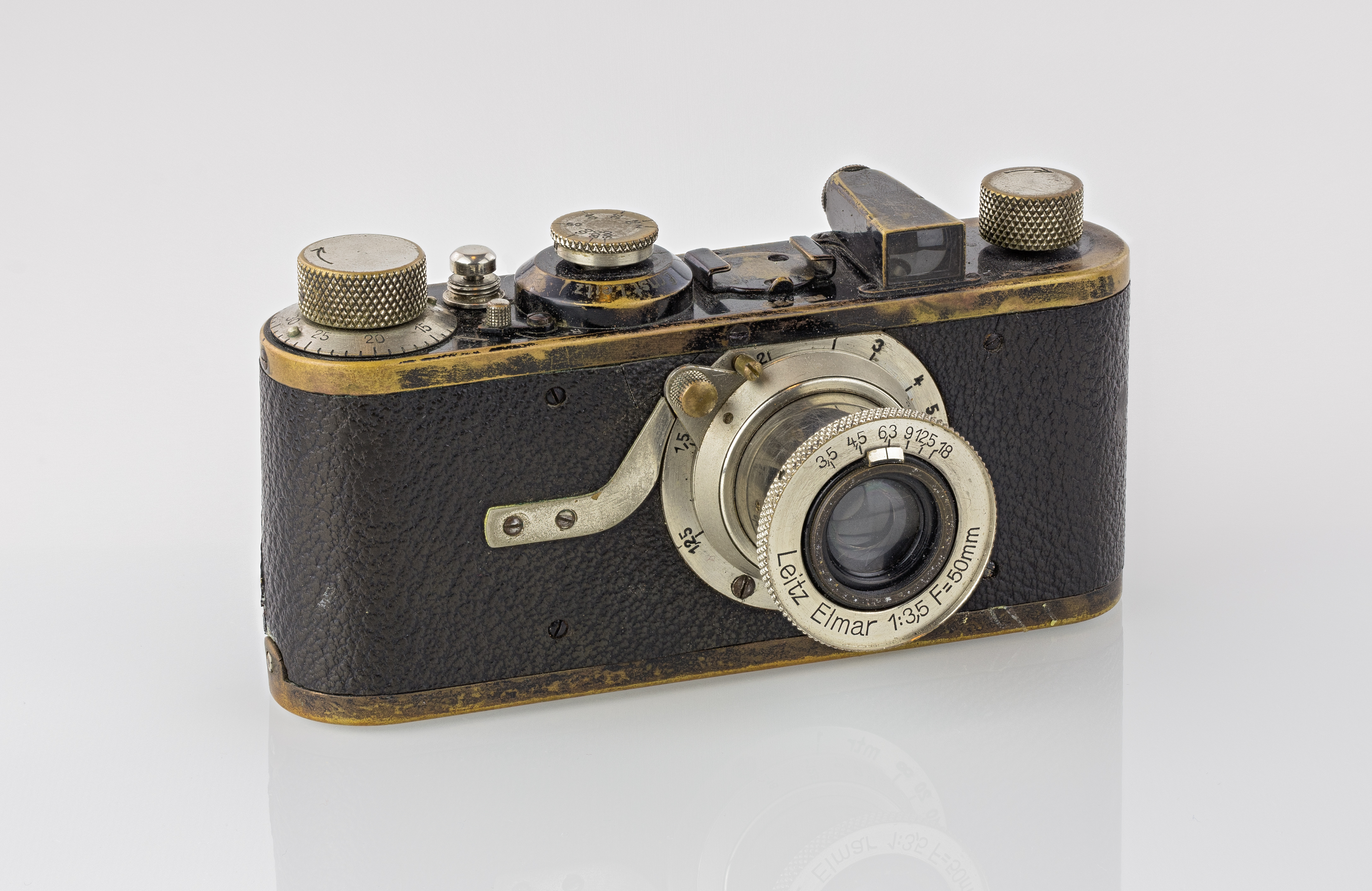 Leica Mod. Ia (1927), production number 5193, production time 1925-1936, Leitz Elmar F=50mm, 1:3.5